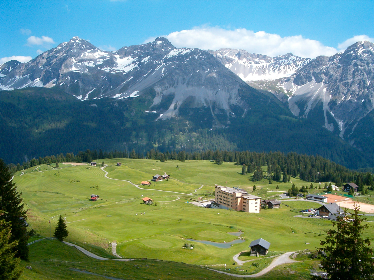 Maran Golf Resort at Arosa, Switzerland